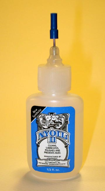 Nyoil II synthetic hydrocarbon lubricant.